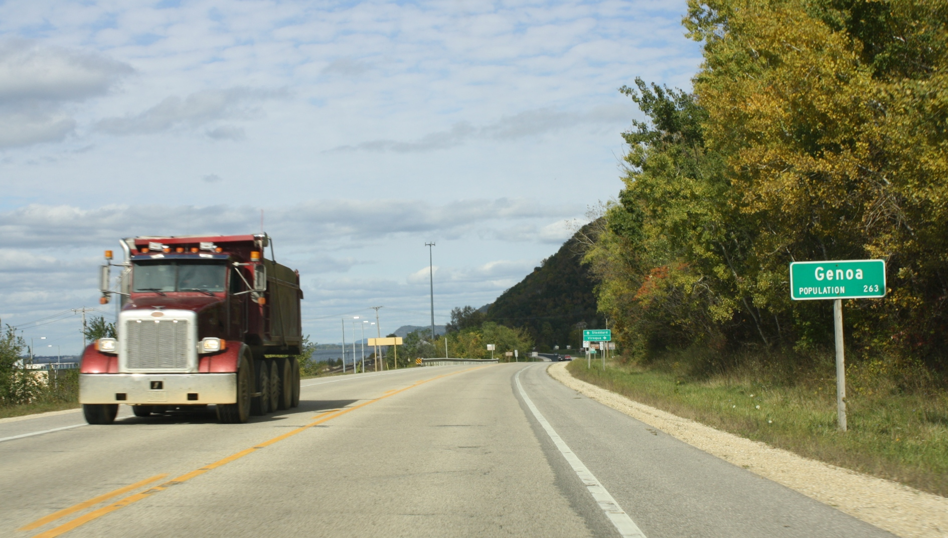 Looking north at the DOT sign for Genoa, Wisconsin along Wisconsin Highway 35.